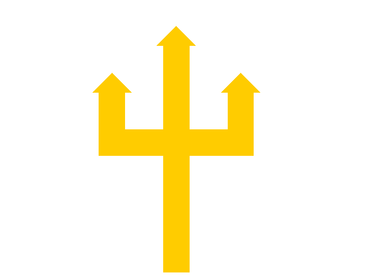 Mark of Ww2 GermanDivision Panzer 2 - 1944-1944